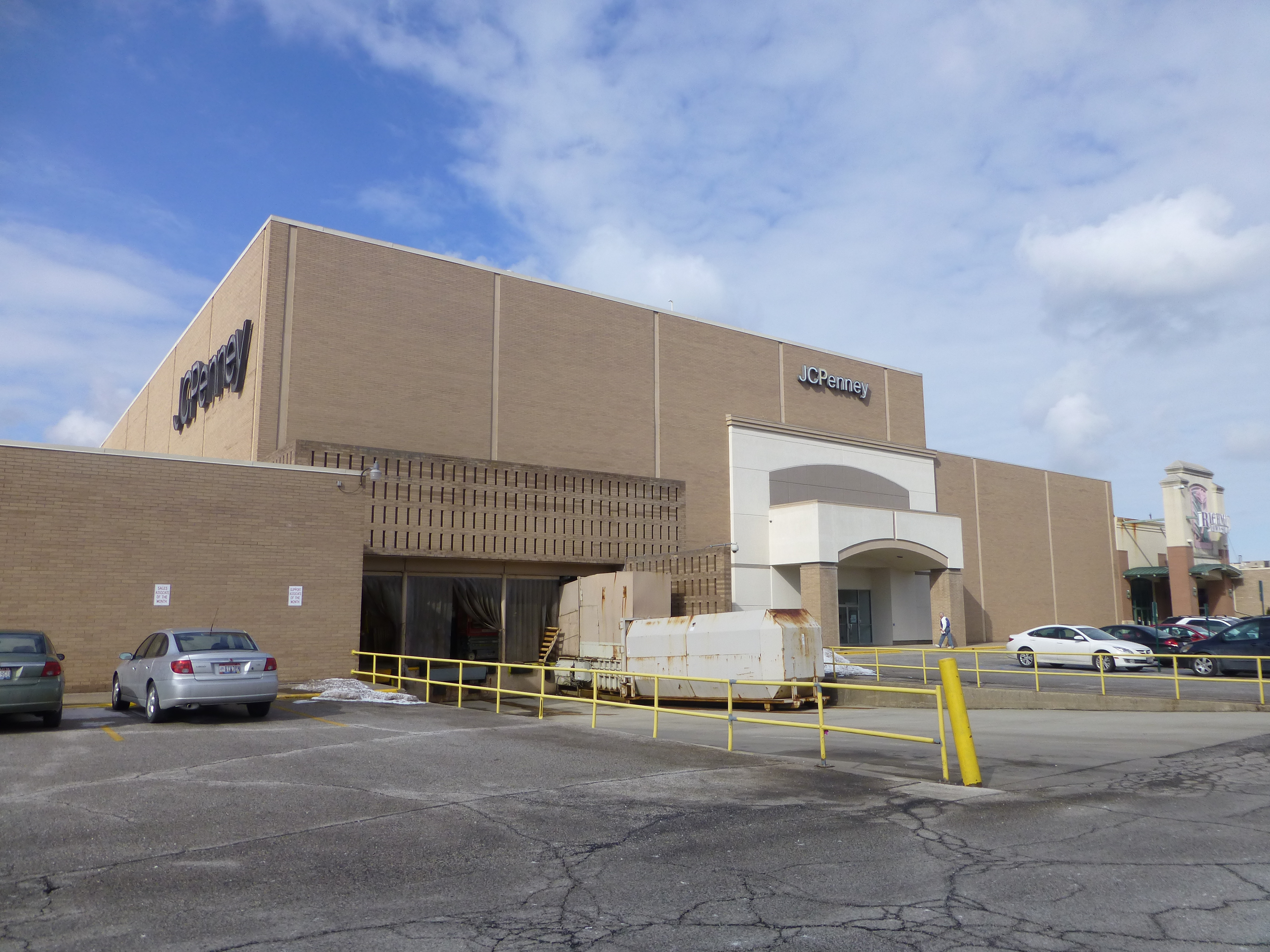 Front of the J. C. Penney store at the southern end of the Richmond Town Square shopping mall in Richmond Heights, Ohio, United States.